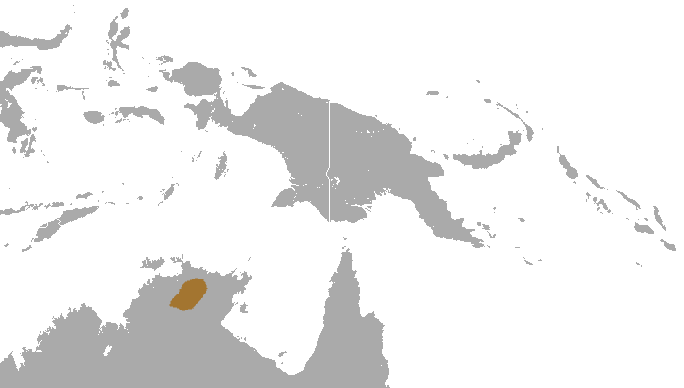 Woodward's Wallaroo (Macropus bernardus) range